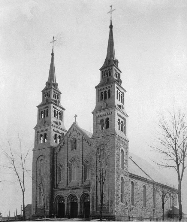 Photograph, Church, St. Cuthbert, QC, about 1890, Anonymous, Silver salts on paper mounted on card - Albumen process - 23 x 19 cm